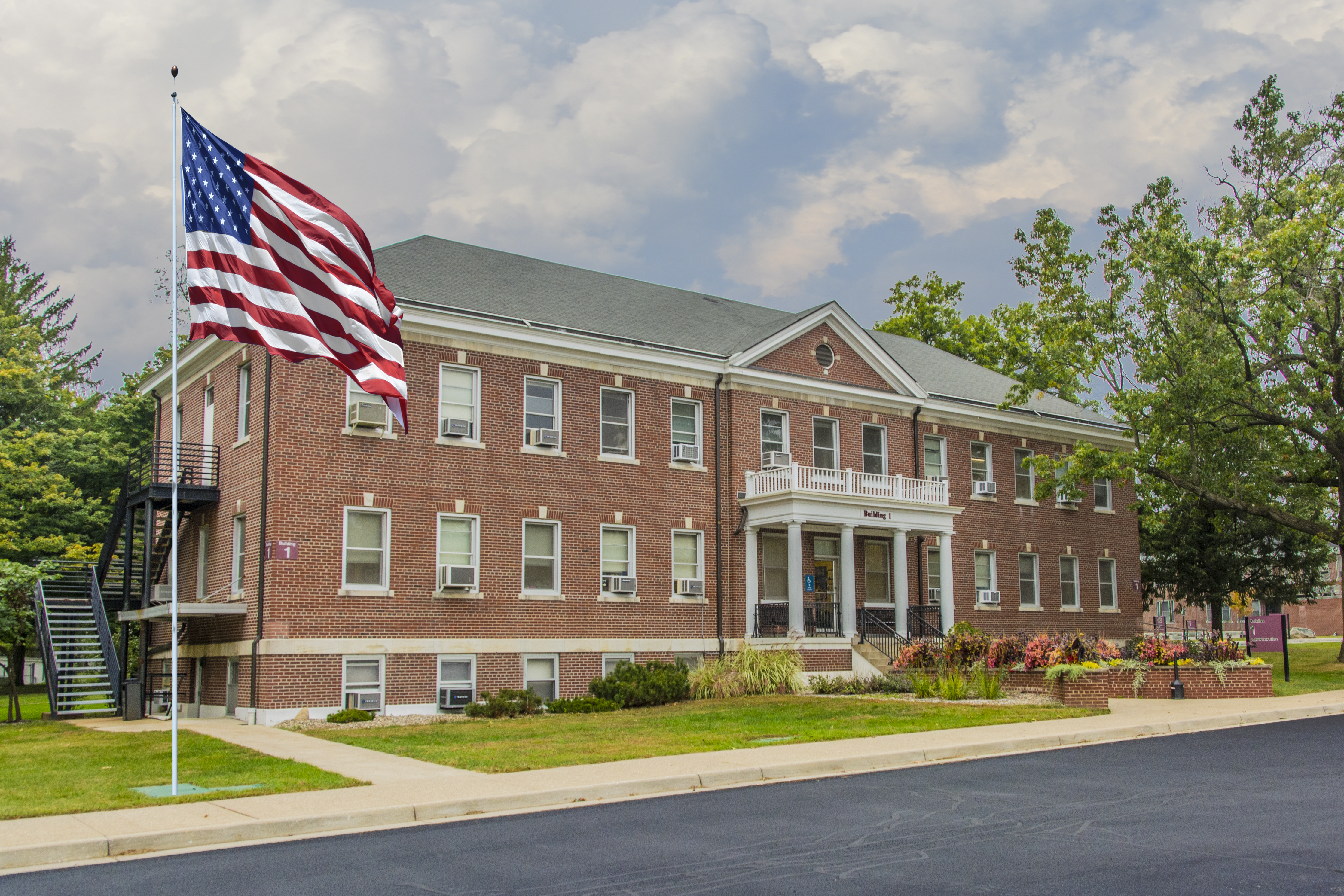 Camp Custer Veterans Administration Hospital-United States Veterans Hospital No. 100